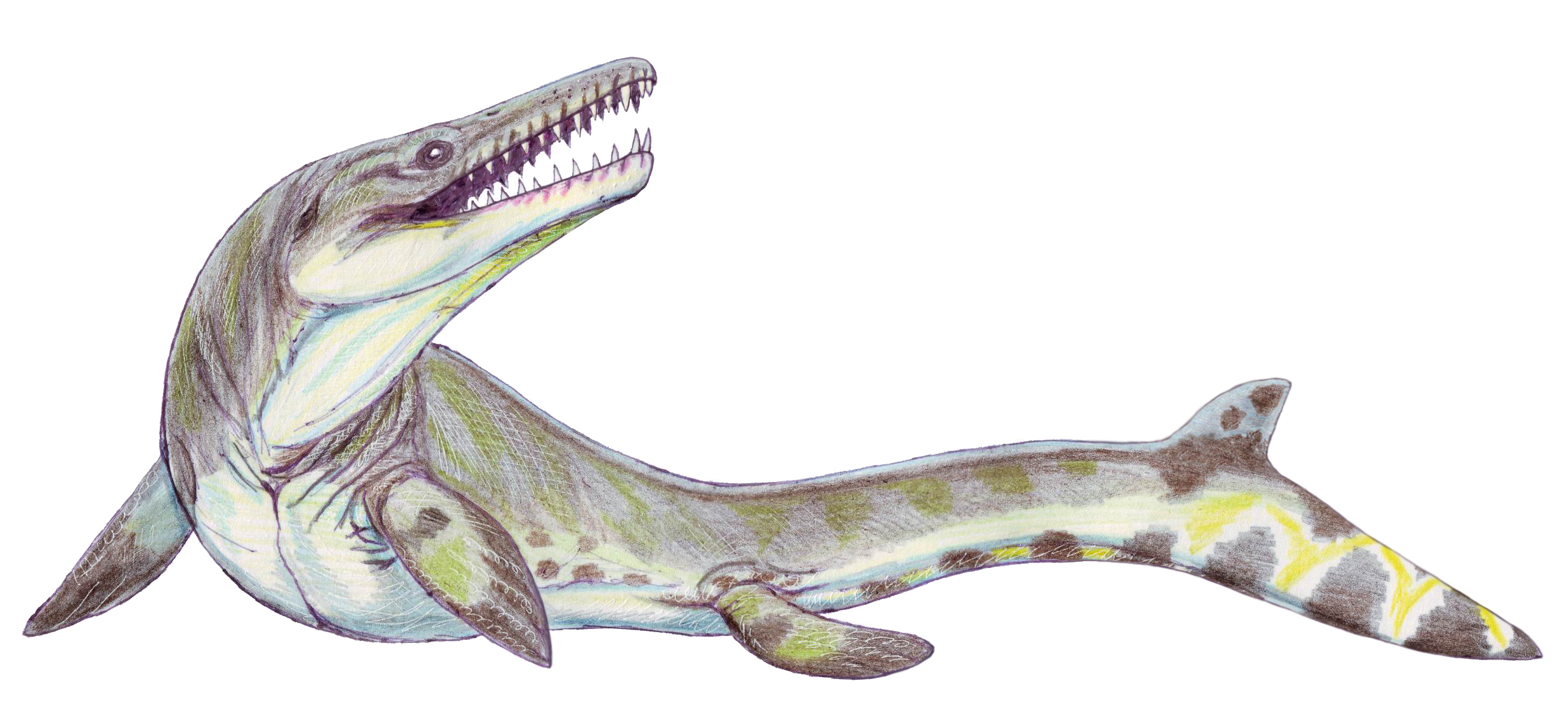 Goronyosaurus nigerensis - unusual tylosaurine mosasaur from maastrichtian of Niger